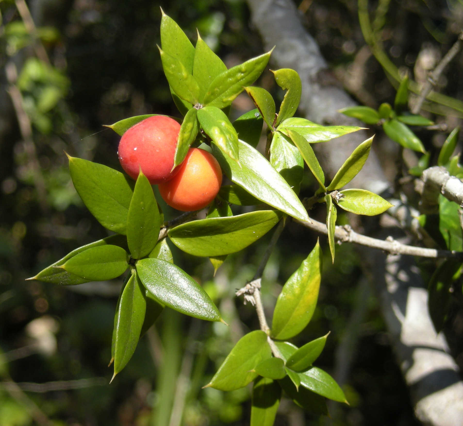 Alyxia ruscifolia foliage and fruit. Mount Archer National Park, Rockhampton, Queensland.